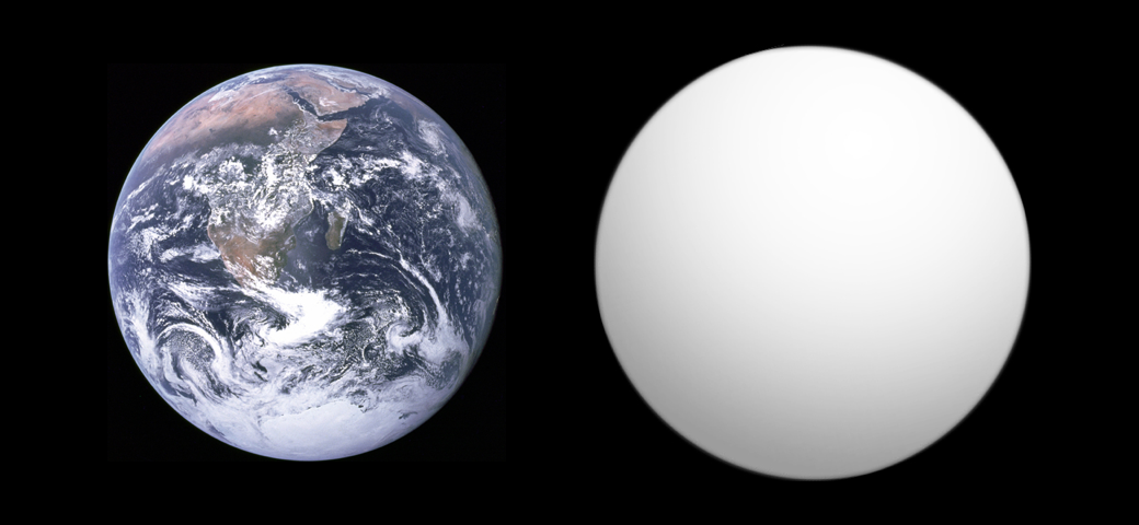 Comparison of best-fit size of the exoplanet Kepler-186 f with the Solar System planet Earth, as reported in the Open Exoplanet Catalogue[1] as of 2014-04-20. ↑ Open Exoplanet Catalogue (2010-09-30). Retrieved on 2010-09-30.